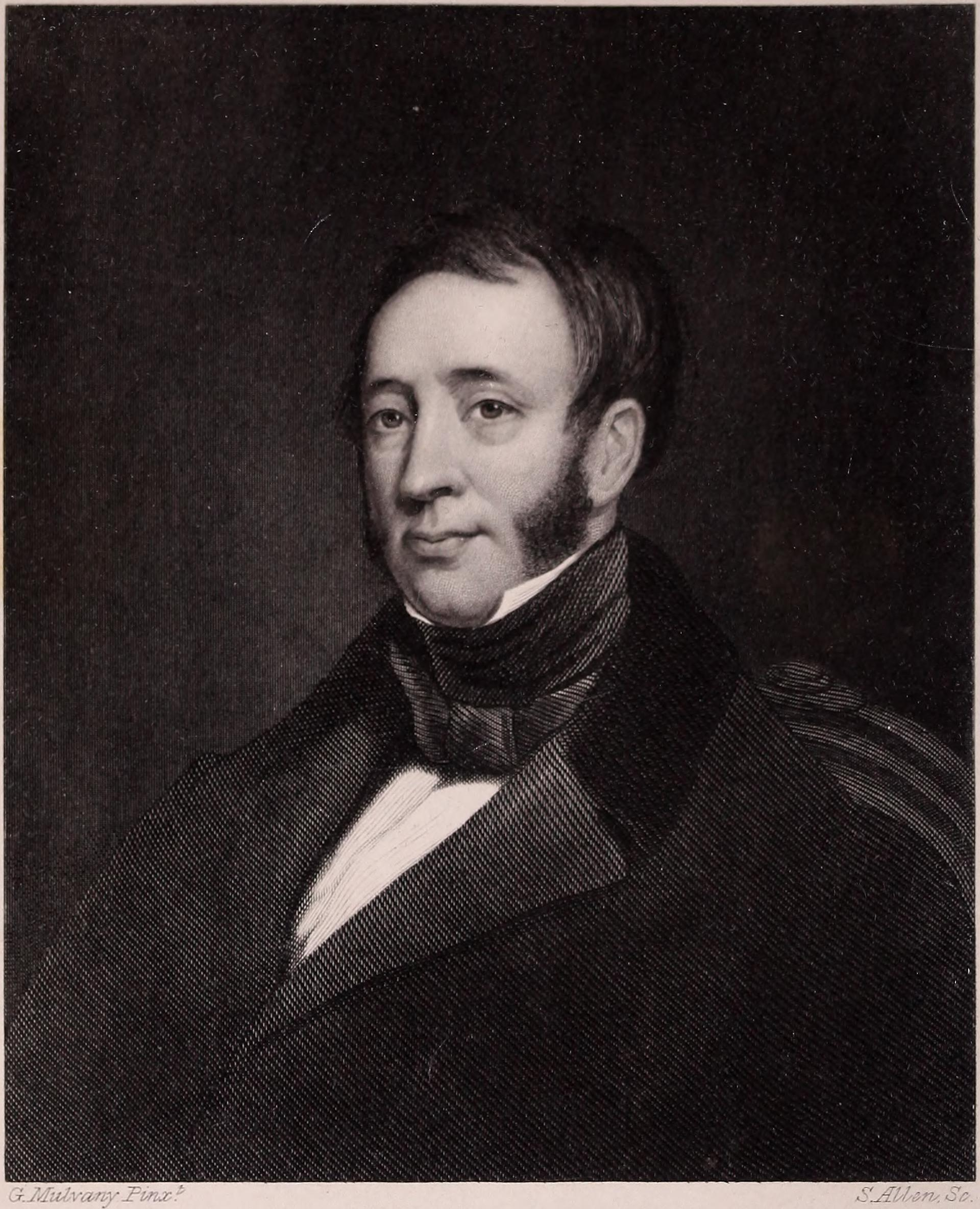 Identifier: unitedirishmenth01madd Title: The United Irishmen : their lives and times, with several additional memoirs, and authentic documents, heretofore unpublished, the whole matter newly arranged and revised Year: 1858 (1850s) Authors: Madden, Richard Robert, 1798-1886 Subjects: United Irishmen Publisher: Dublin : James Duffy Baltimore : J. Murphy View Book Page: Book Viewer About This Book: Catalog Entry View All Images: All Images From Book Click here to view book online to see this illustration in context in a browseable online version of this book. Text Appearing Before Image: ' Text Appearing After Image: THE UNITED IRISHMEN, LIVES AND TIMES. WITH SEVERAL ADDITIONAL MEMOIRS, AND AUTHENTIC DOCUMENTS,HERETOFORE UNPUBLISHED j THE WHOLE MATTERNEWLY ARRANGED AND REVISED. BY RICHARD R. MADDEN, F.R.C.S, ENG., M.R.I.A. A ITHOR OF TRAVELS IN THE EAST , THE LIFE AND TIMES OF SAVONAROLAMEMOIRS OF THE COUNTESS OF BLESSINGTOn, IHANTASMATA,OR ILLUSIONS AND FANATICISMS, ETC. :Thc mind of a nation, when long fettered and exasperated, will struggle and bound, and when acliasm is opened, will escape through it, like the lava from the crater of a volcano.—I. K. L. W I T II N [J ME ROUS PORTRAITS BOSTON COLLEGE LIBRARYCHESTNUT HILL, MASS. JAMES DUBLIN:DUFFY, 7 WELLINGTON MDCCCLVIII. QUAY. , /Hp / 205S90 DEDICATION. TO THE RIGHT HONOURABLE HENRY, LORD BROUGHAM AND VAUX. My Lord, When I commenced this work many years ago, and wasonly known to your Lordship as a man who had rendered someslight services to a cause, of which you had been the consistentand strenuous advocate from the outset of your career inunitedirishmenth01madd